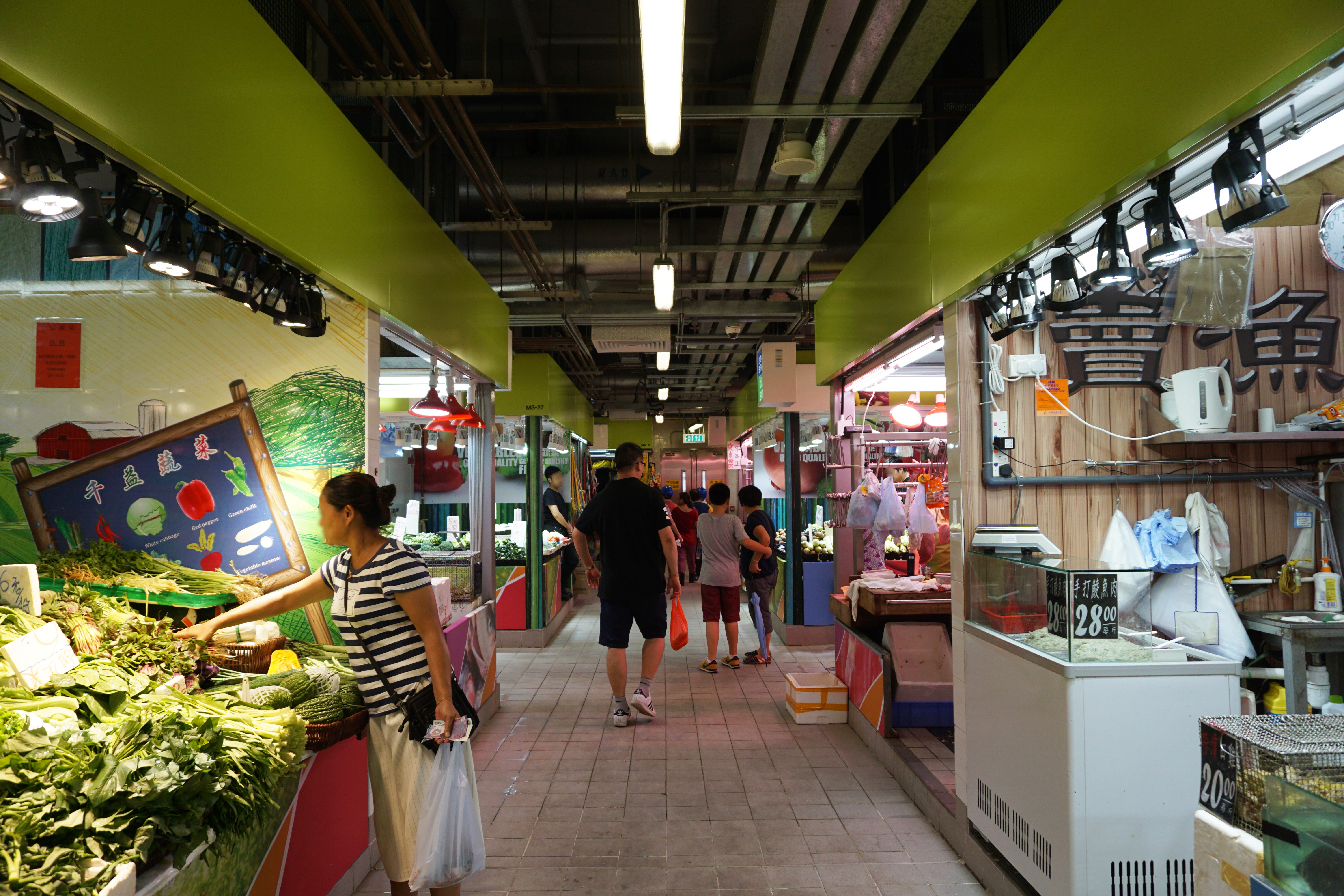 Allmart (Shui Chuen O) Market in Sha Tin Wai, Hong Kong.